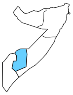 Map of Southwestern Somalia State